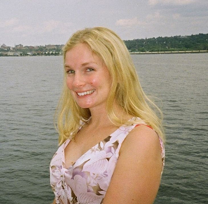 Nadine Unger, a researcher at Columbia University’s Center for Climate Systems Research and NASA's Goddard Institute for Space Studies